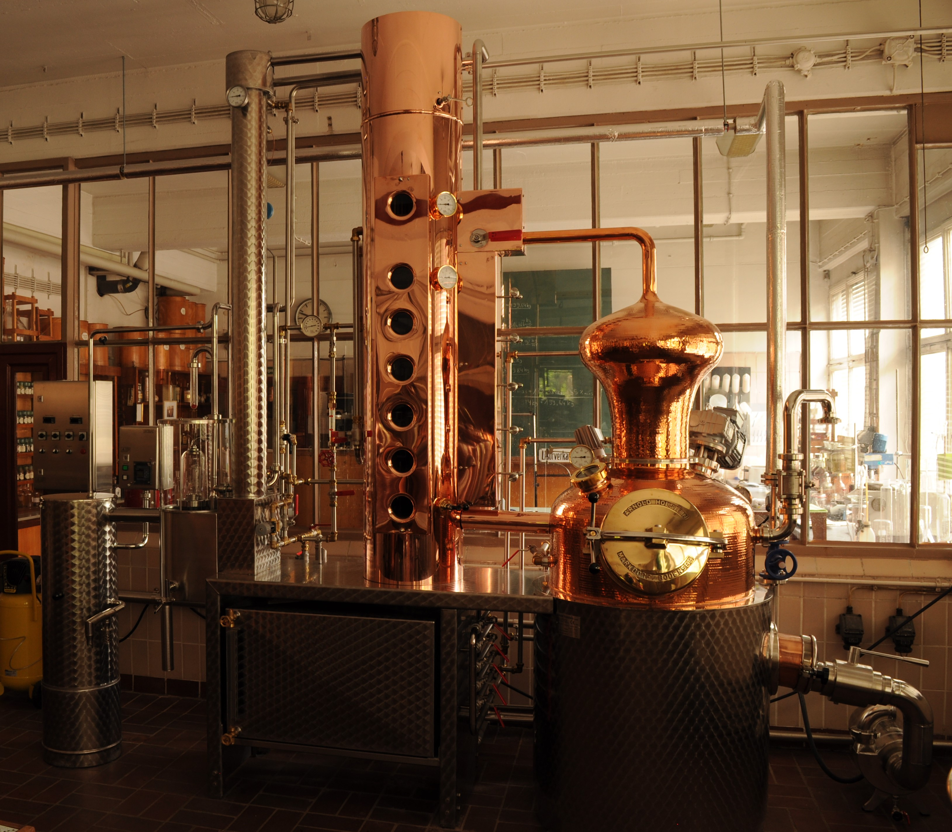 WikiProjekt:Preussisches Spirituosen Museum